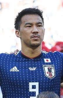 Japan national football team